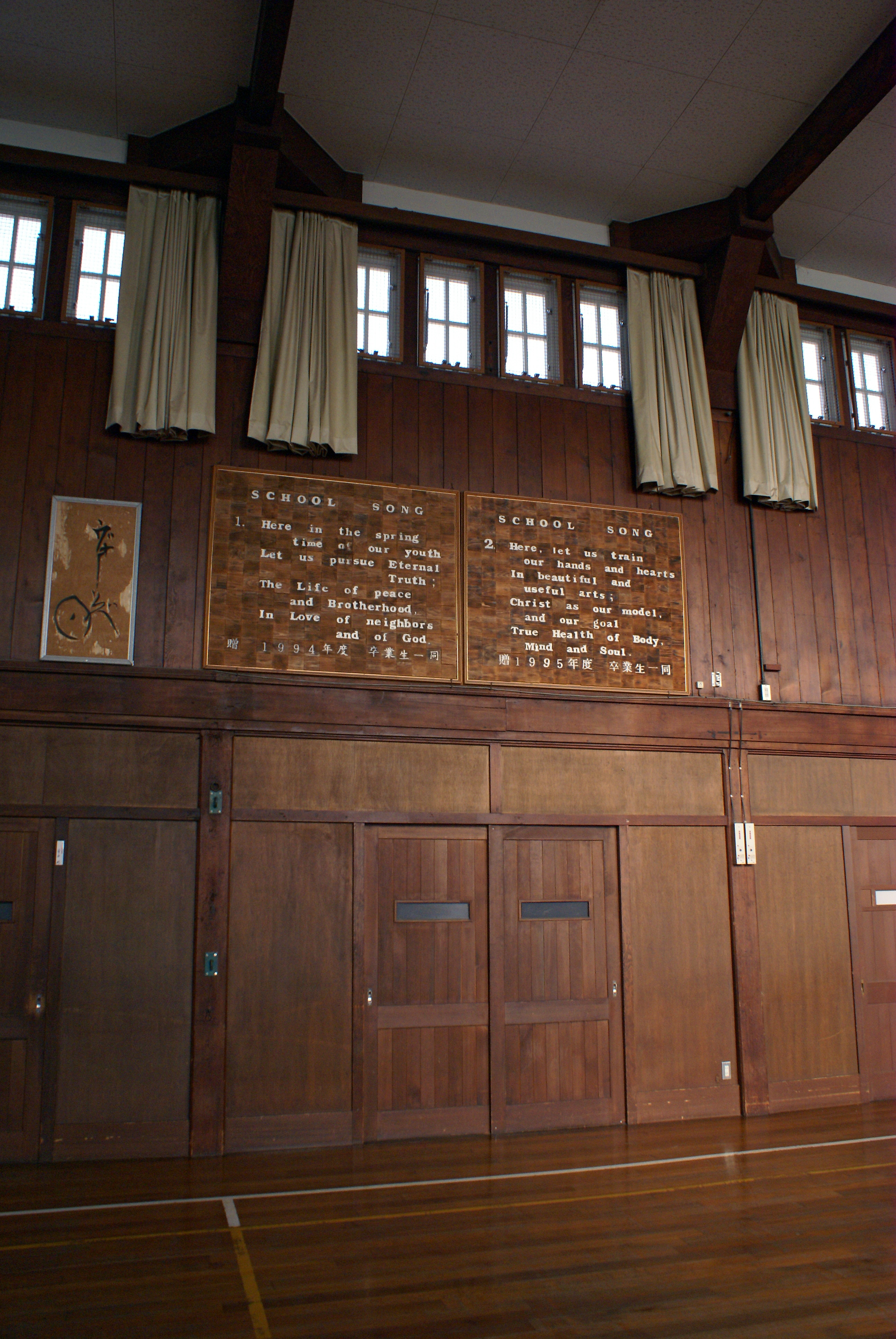 Hyde Memorial Hall and Educational Hall, Omihachiman, Shiga prefecture, Japan